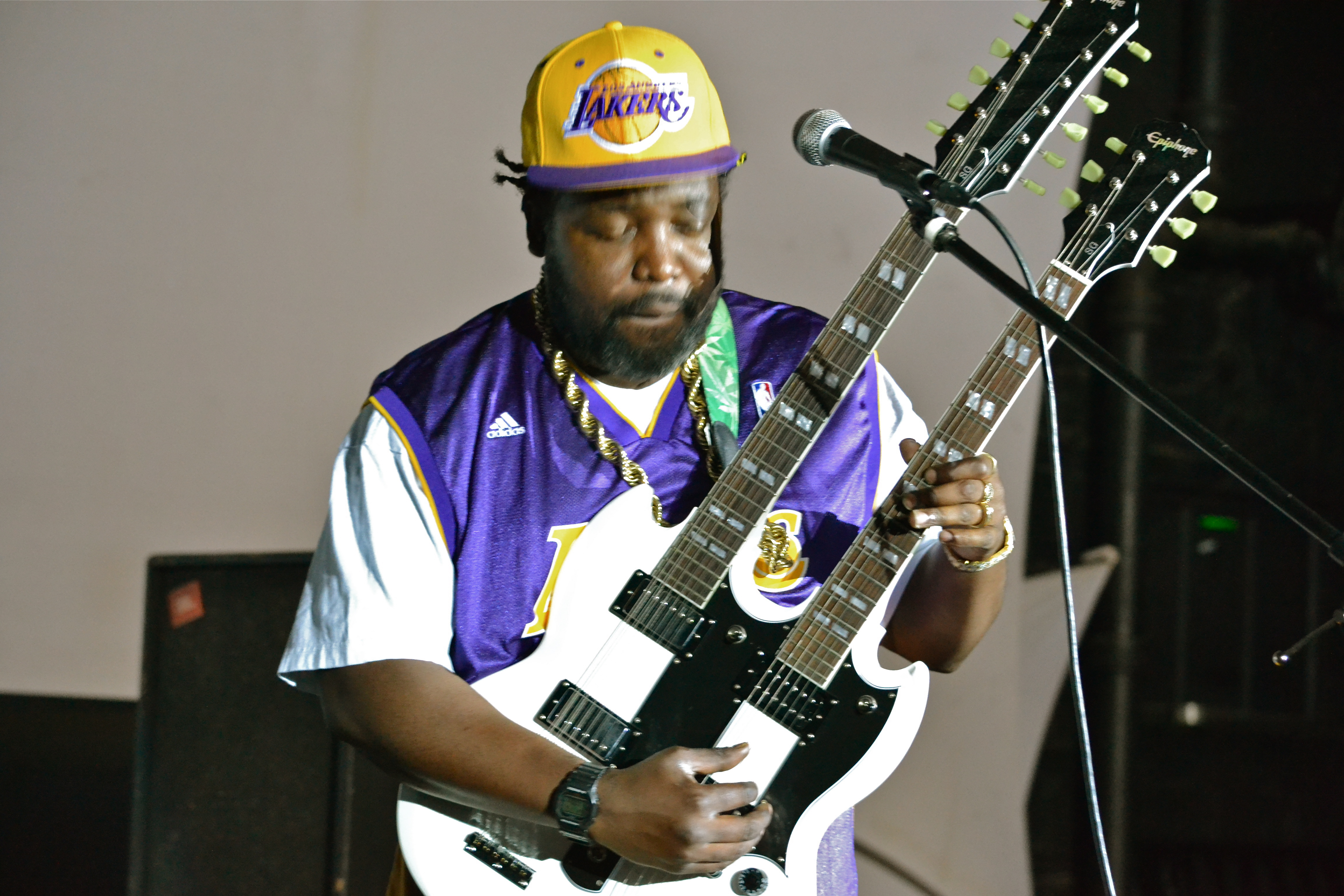 Afroman on stage at Gainesville (2011)